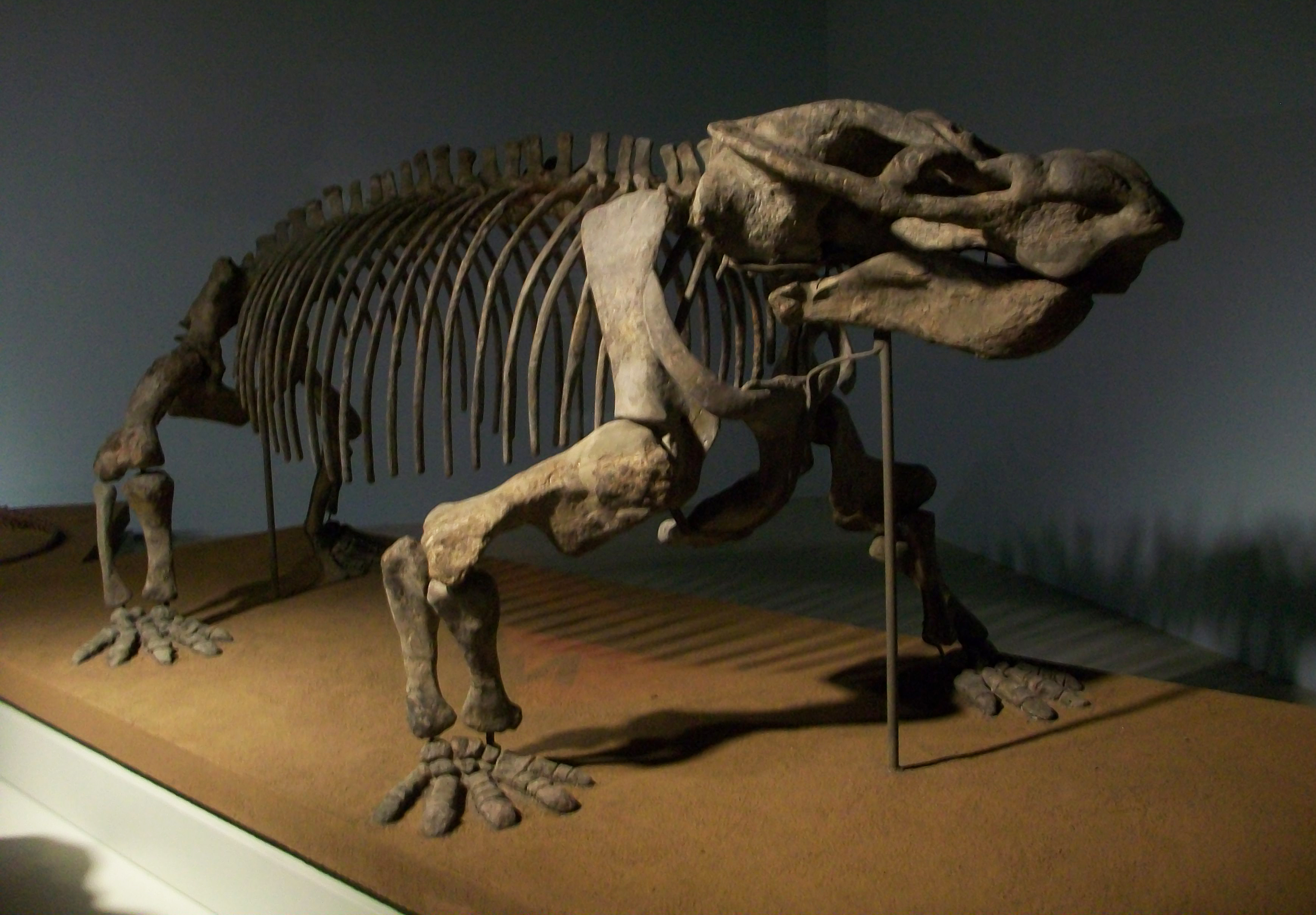 Skeleton of Aulacephalodon bainii, syn. A. peavoti in the Field Museum of Natural History